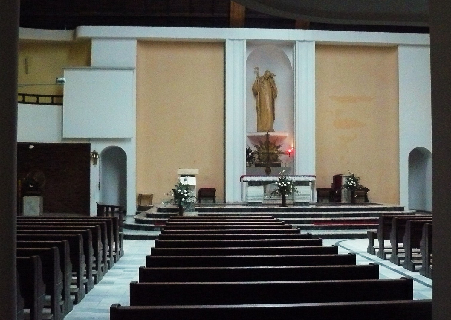 Interior of church, Poznań, Nowina Street.